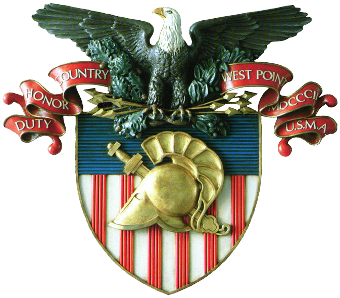 United States Military Academy Coat Of Arms